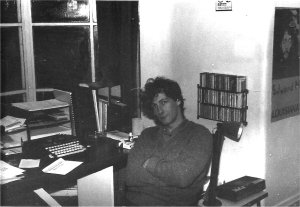 Greg Day in his study in the early 1980s